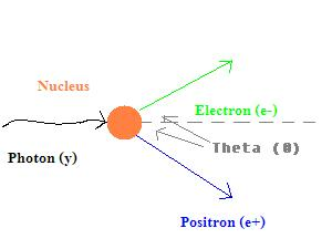 Diagram of pair production